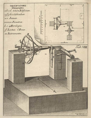 Some of Ole Rømer's instruments at Observatorium Tusculanum, Vridsløsemagle, Denmark